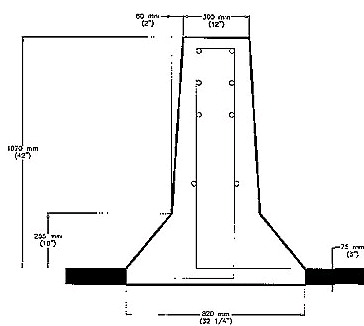 drawing of a Jersey Barrier. Originally from an article in the Federal Highway Administration's publication Public Roads March/April 2000· Vol. 63· No. 5. This is available online